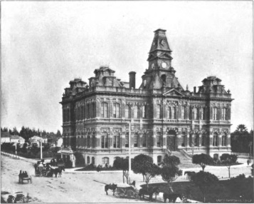 The former San Jose City Hall in Plaza Park in San Jose, California, United States, around 1896.